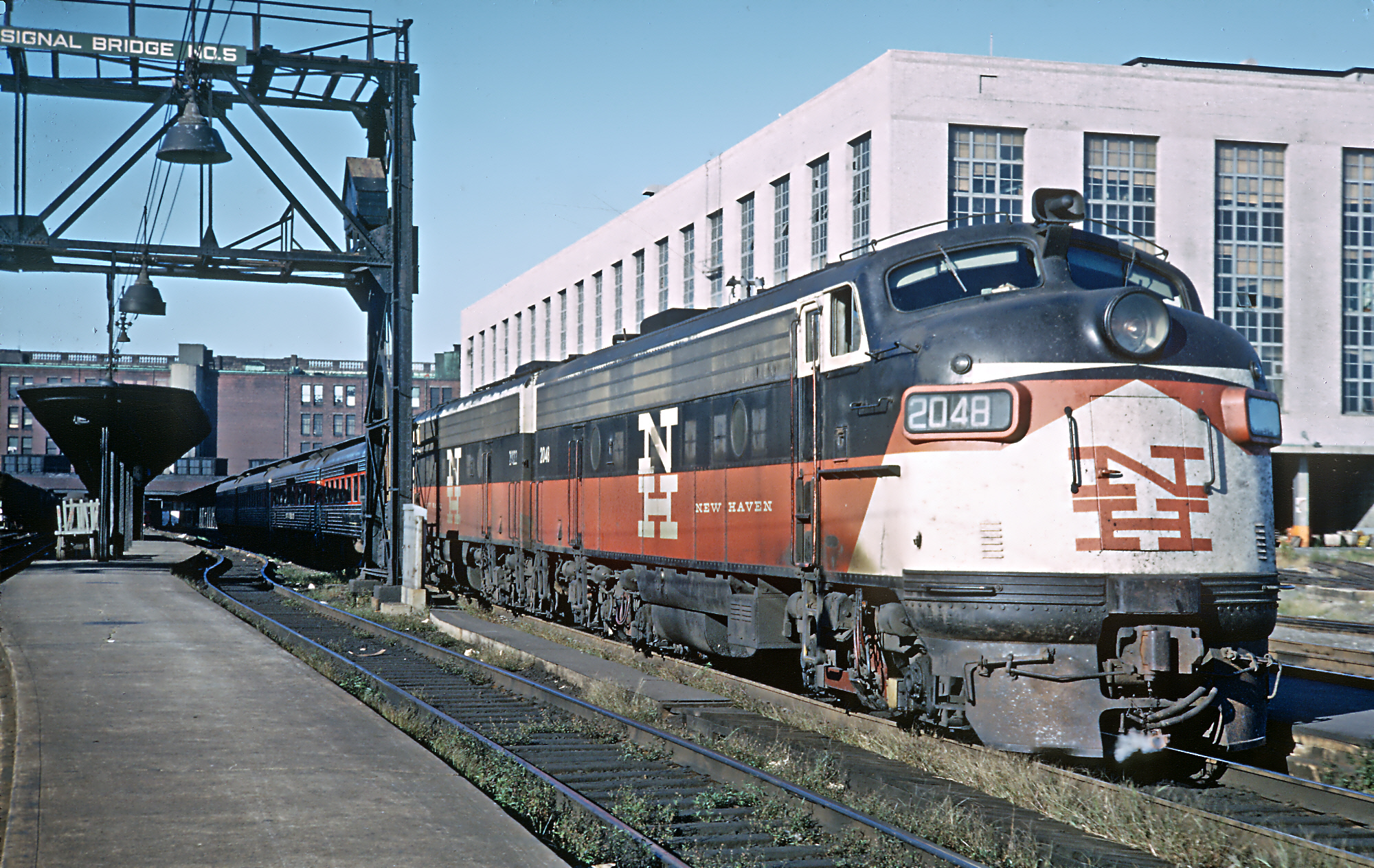 New Haven Railroad train #27, the Merchants Limited, led by FL9 #2048 departing from South Station, Boston on September 4, 1965